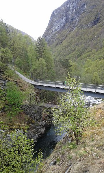 Utla River